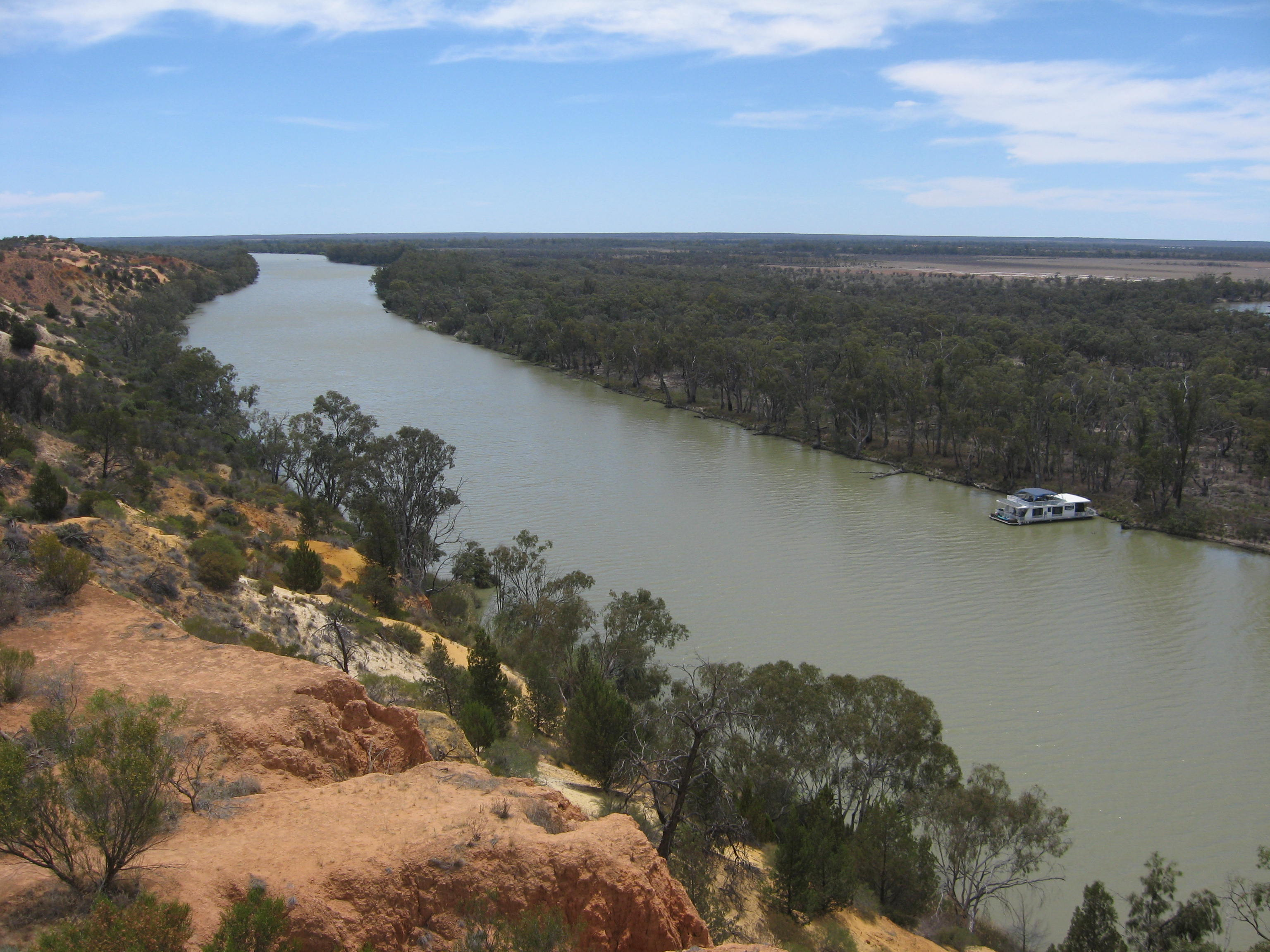 View of Murray River, downstream of Headings Cliffs, South Australia.